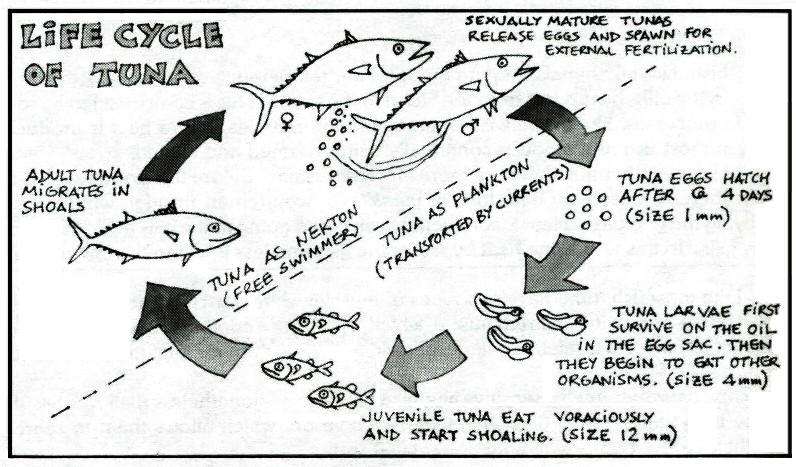 Tuna lifecycle. Part of a series of drawings made by the author for the Educational Development Center. Ministry of Education, Male', Maldives